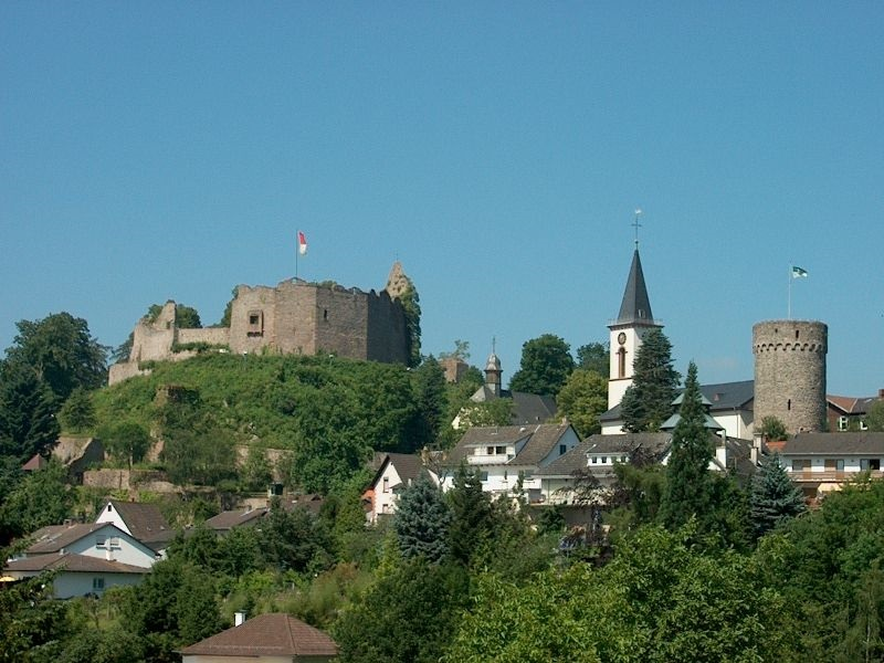 Lindenfels Castle, Catholic church, Evangelical church, Bürgerturm, Lindenfels, Hesse, Germany